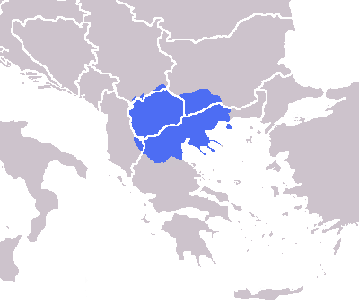 The modern greater Macedonian region imposed over national borders.